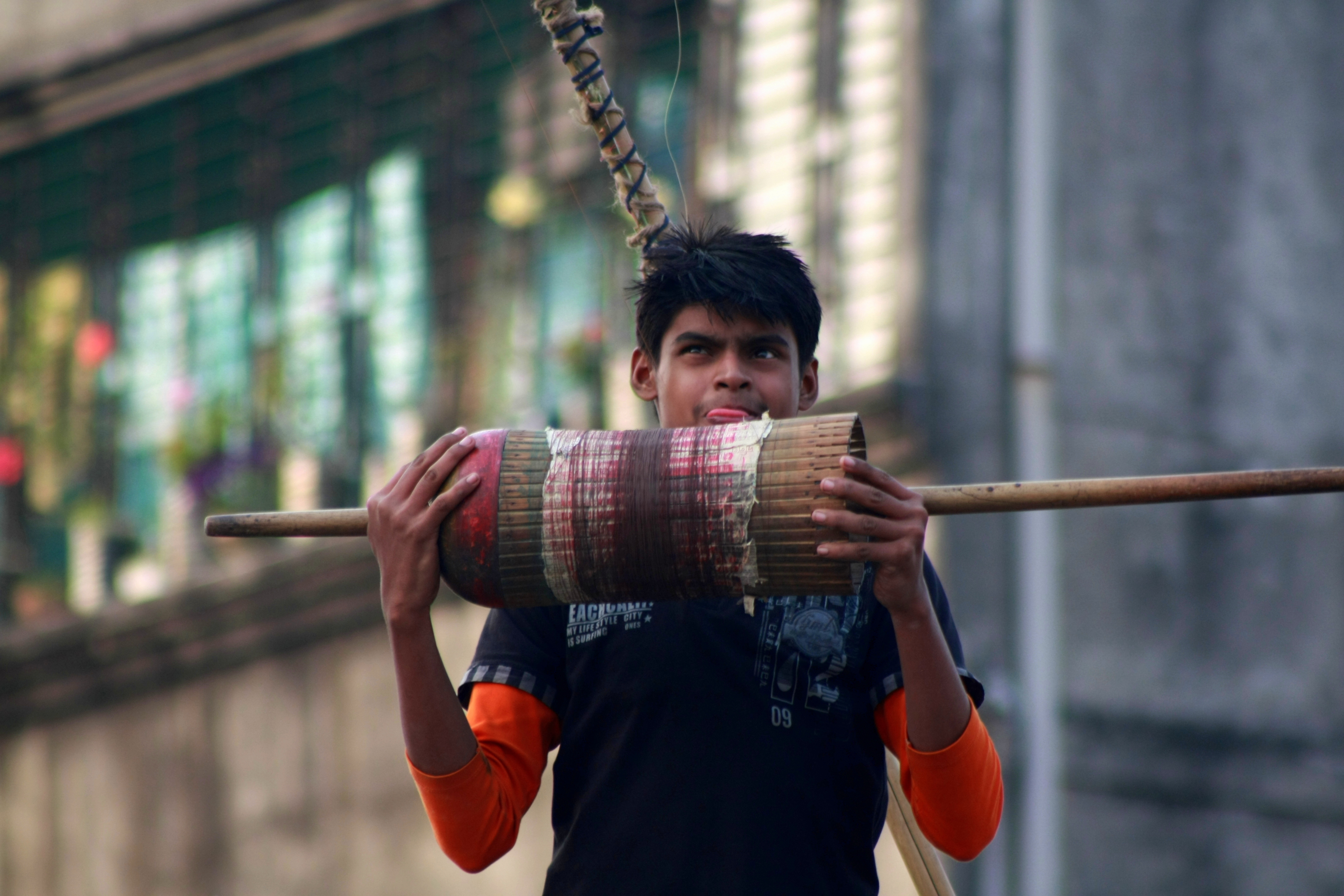 Shakrain Kite Flyer in old Dhaka